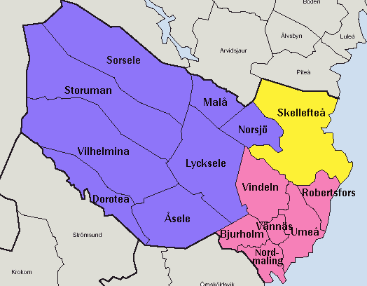 electional divisions for västerbottens landsting